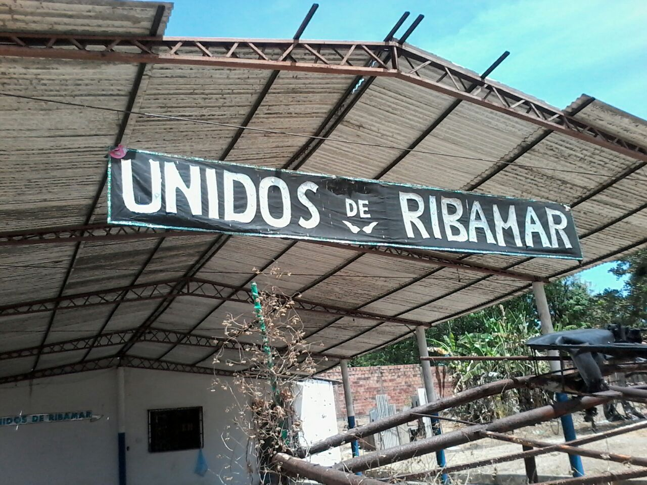 Unidos de Ribamar